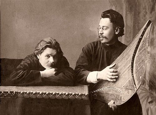 Russian writers Maxim Gorky (left) and Stepan Skitalets. The musical instrument that Skitalets is playing is a gusli.